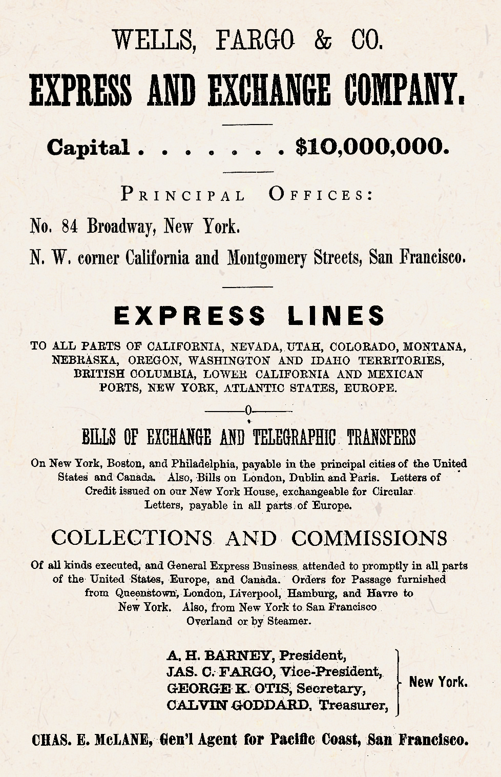 Well, Fargo & Co. display advertisement, January, 1870